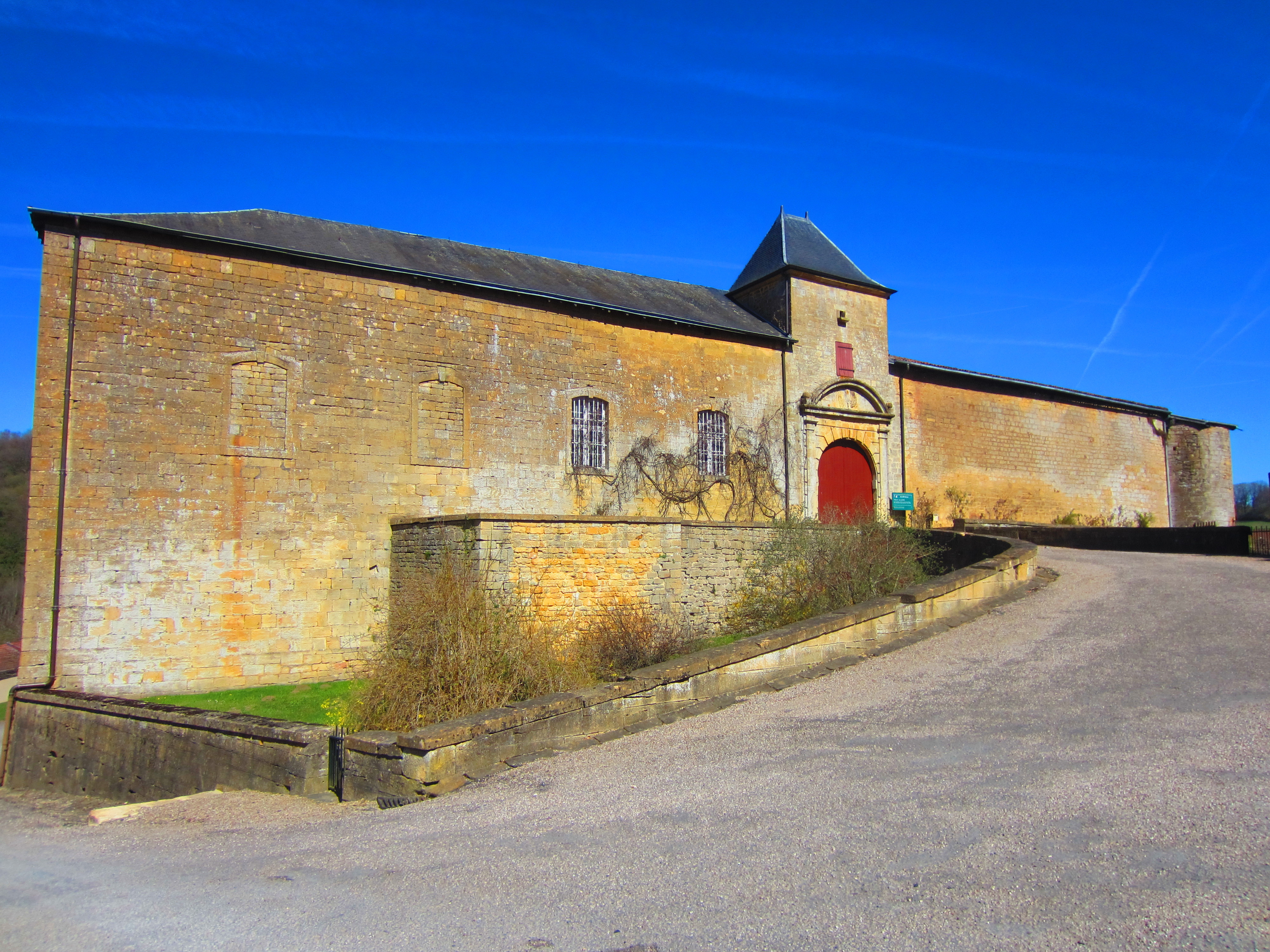 Cons Grandville castle door